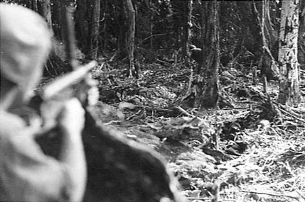 April 5, 1945. The view forward of Australian 25th Battalion positions on Slater's Knoll, Bougainville, Territory of New Guinea. The soldier in the foreground is aiming an Owen submachine gun.